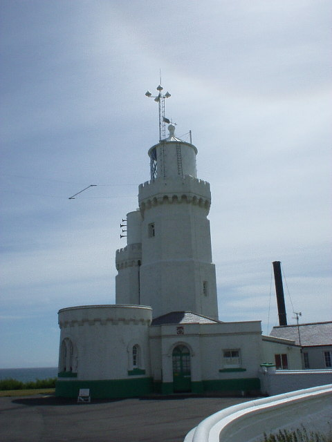 St. Catherine's Lighthouse, I.o.W. St. Catherine's Lighthouse at the southern tip of the Isle of Wight